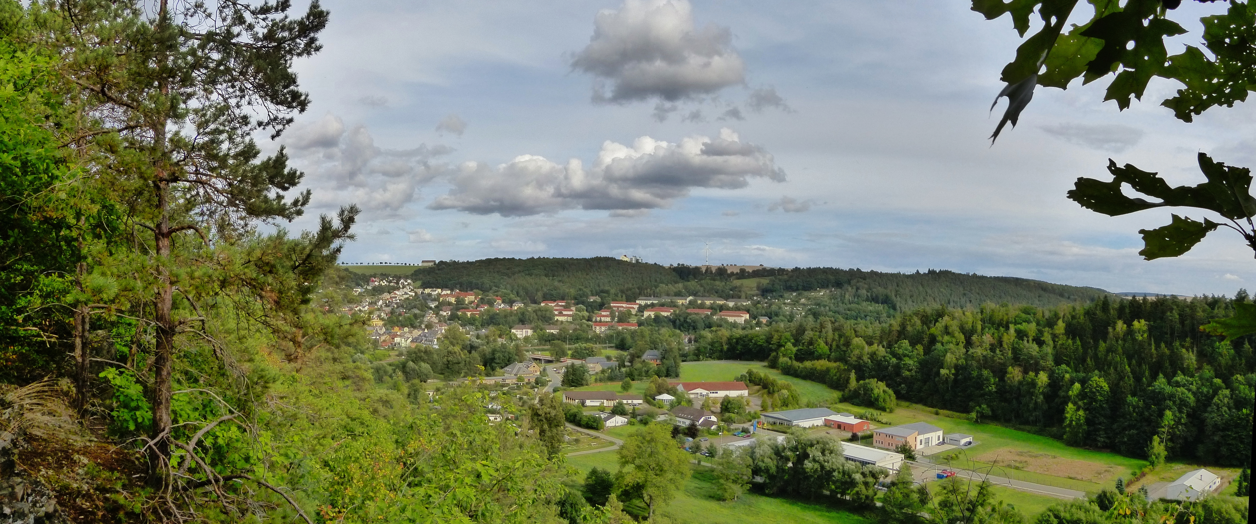 View of the commercial area of the city